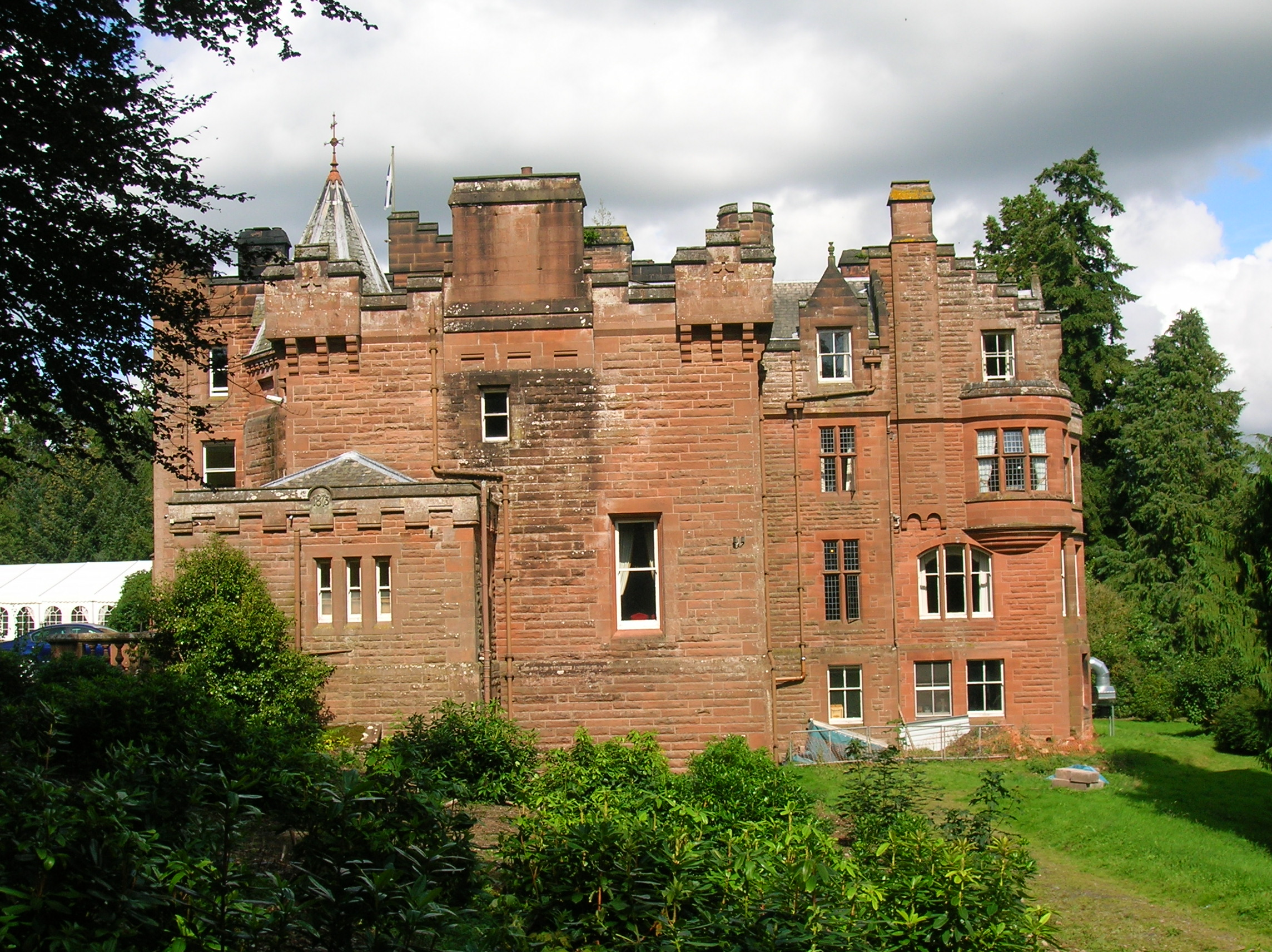 Friars Carse hotel, Auldgirth, Scotland